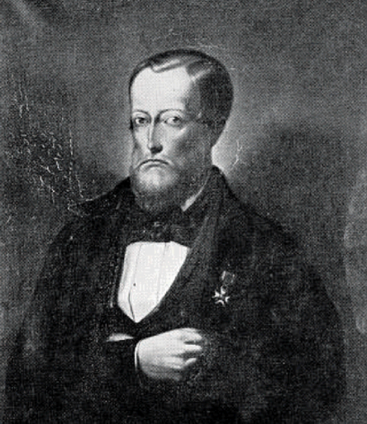 Antonio Arcioni (1811-1859), Swiss officer and Republican general in the Italian Risorgimento.